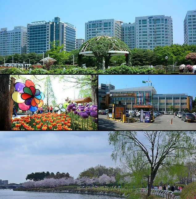 Montage of Goyang city, Gyeonggi-do, Korea.